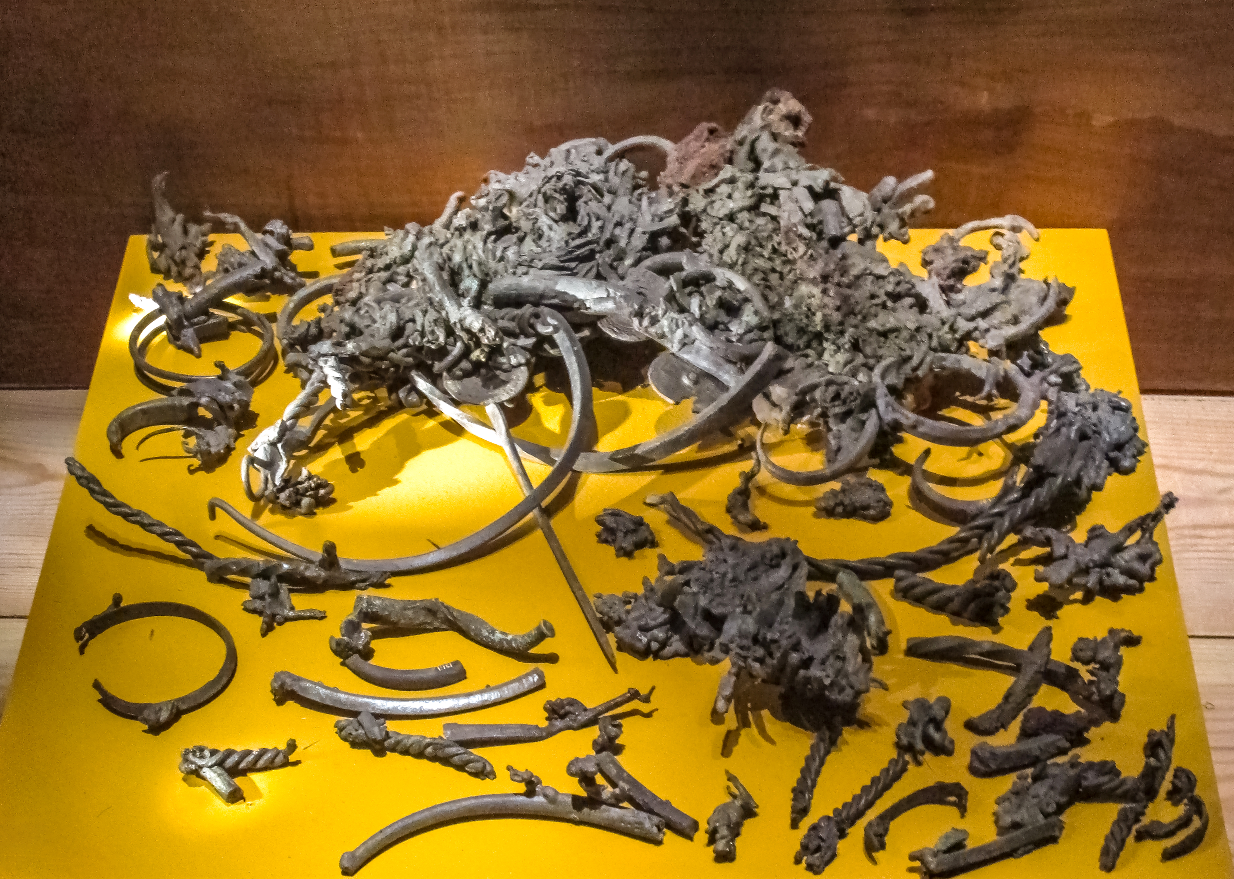 Bronze scrap-metal partially melted into a "cake" from the Spillings Hoard at Gotland Museum.